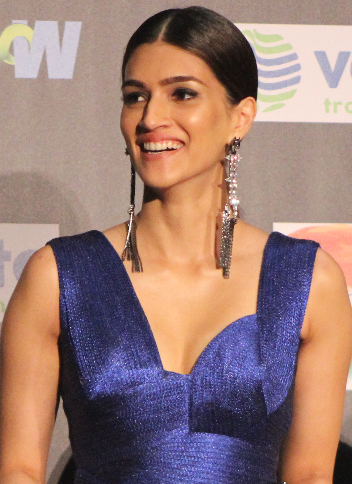 Sushant, Kriti, and Varun at IIFA 2017